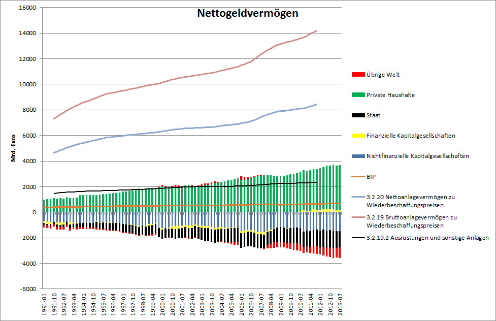 "Nettogeldvermögen" net financial assets (financial assets minus liabilities) of economy sectors of Germany